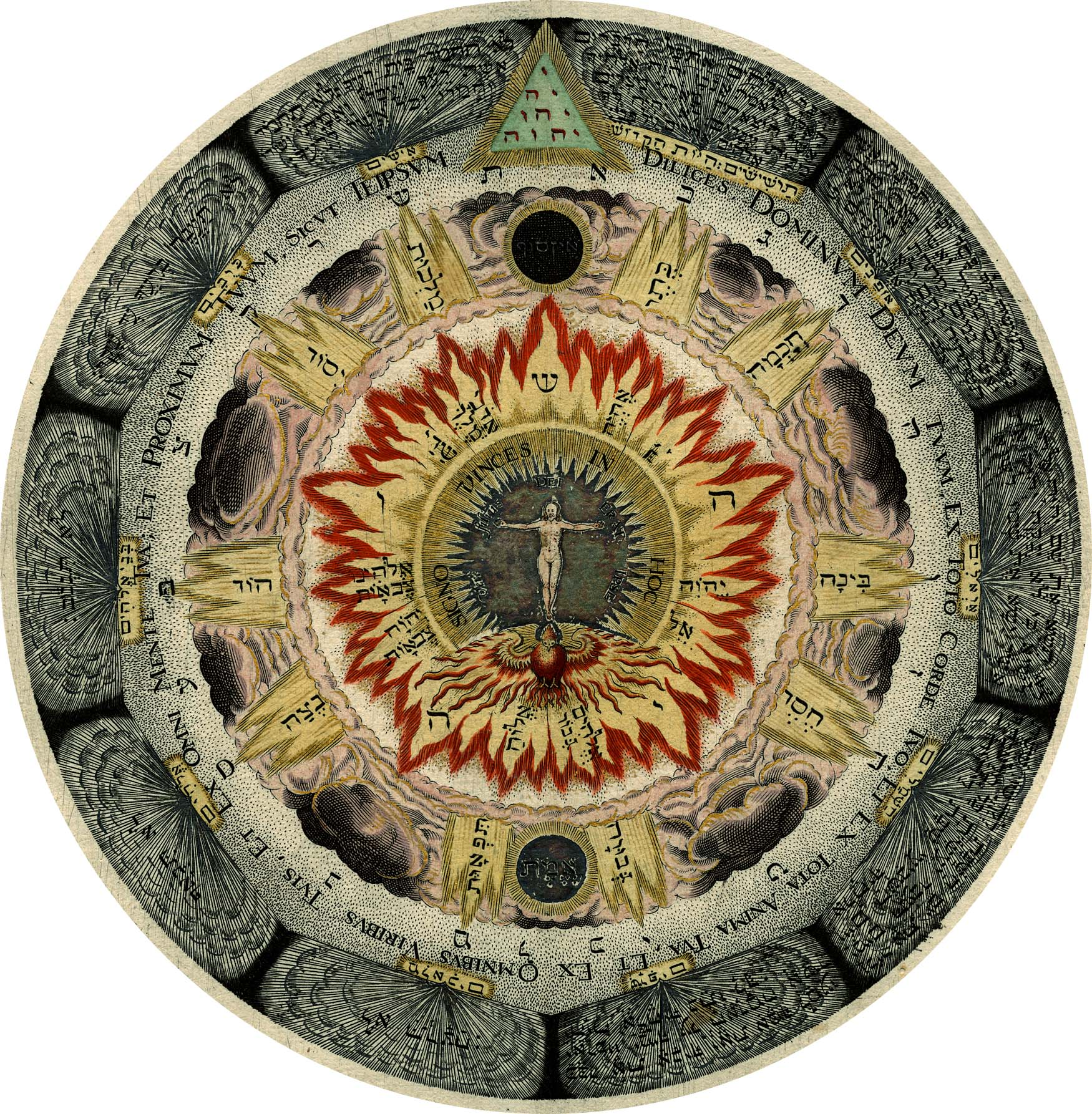 The cosmic rose Engraving pictured in the book Amphitheatrum sapientiae aeternae written by Heinrich Khunrath. The triangle near the top contains a tetractys of the Tetragrammaton (Hebrew name of God). The five large Hebrew letters near the red jagged outline form the "Pentagrammaton".